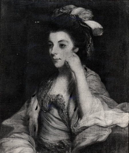 Jane Rochfort, Lady Lanesborough 1737-1828